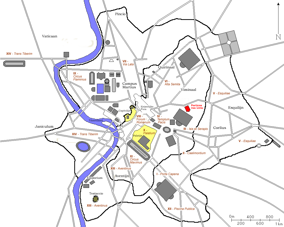 Porticus of Livia on a map of ancient Rome around 300 AD